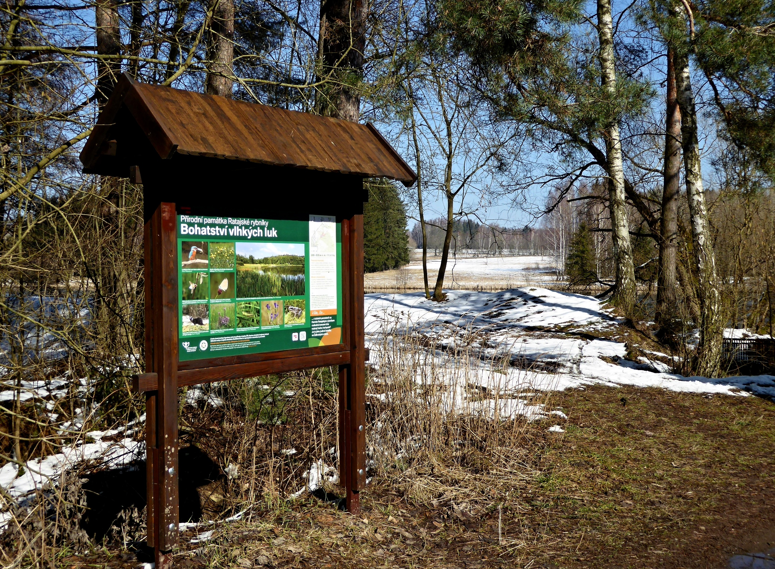 Natural Monument "Ratajské" ponds and locality of European importance in the Czech Republic. Information boards of protected landscape area "Ždarské" hills. Photo location: Czechia, Pardubice Region, Hlinsko town.